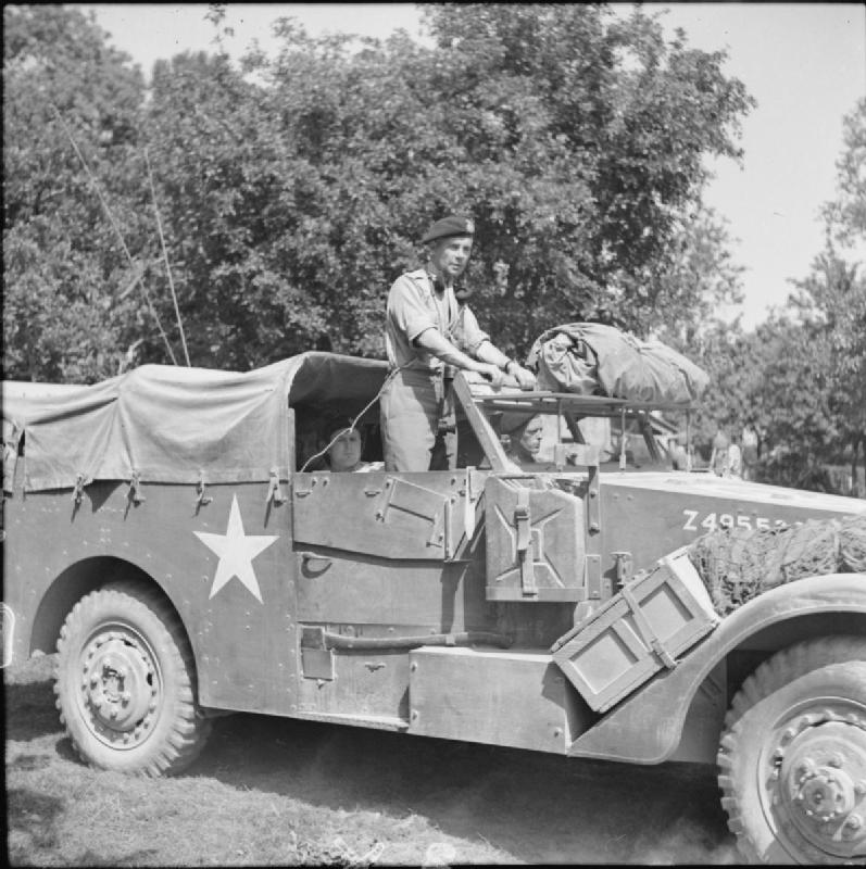 The British Army in the Normandy Campaign 1944 Major-General 'Pip' Roberts, commanding 11th Armoured Division, in his White scout car.